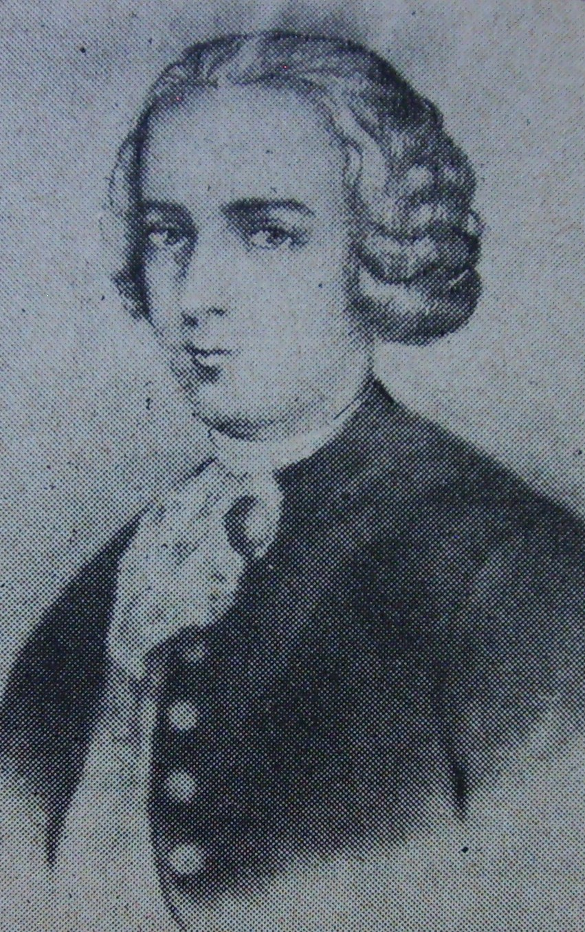 The novospaniard historian Mariano Fernández de Echeverría y Veytia